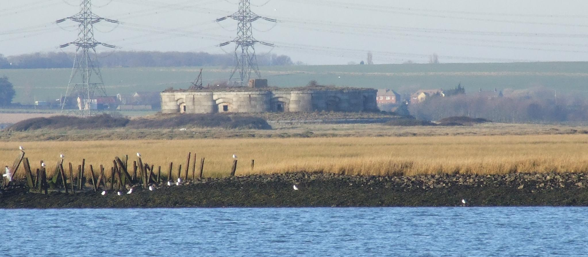 Fort Darnet from Horrid Hill, Lower Rainham, Kent. It and Hoo Fort are on islands in the Medway Estuary, Kent, UK. (cropped)